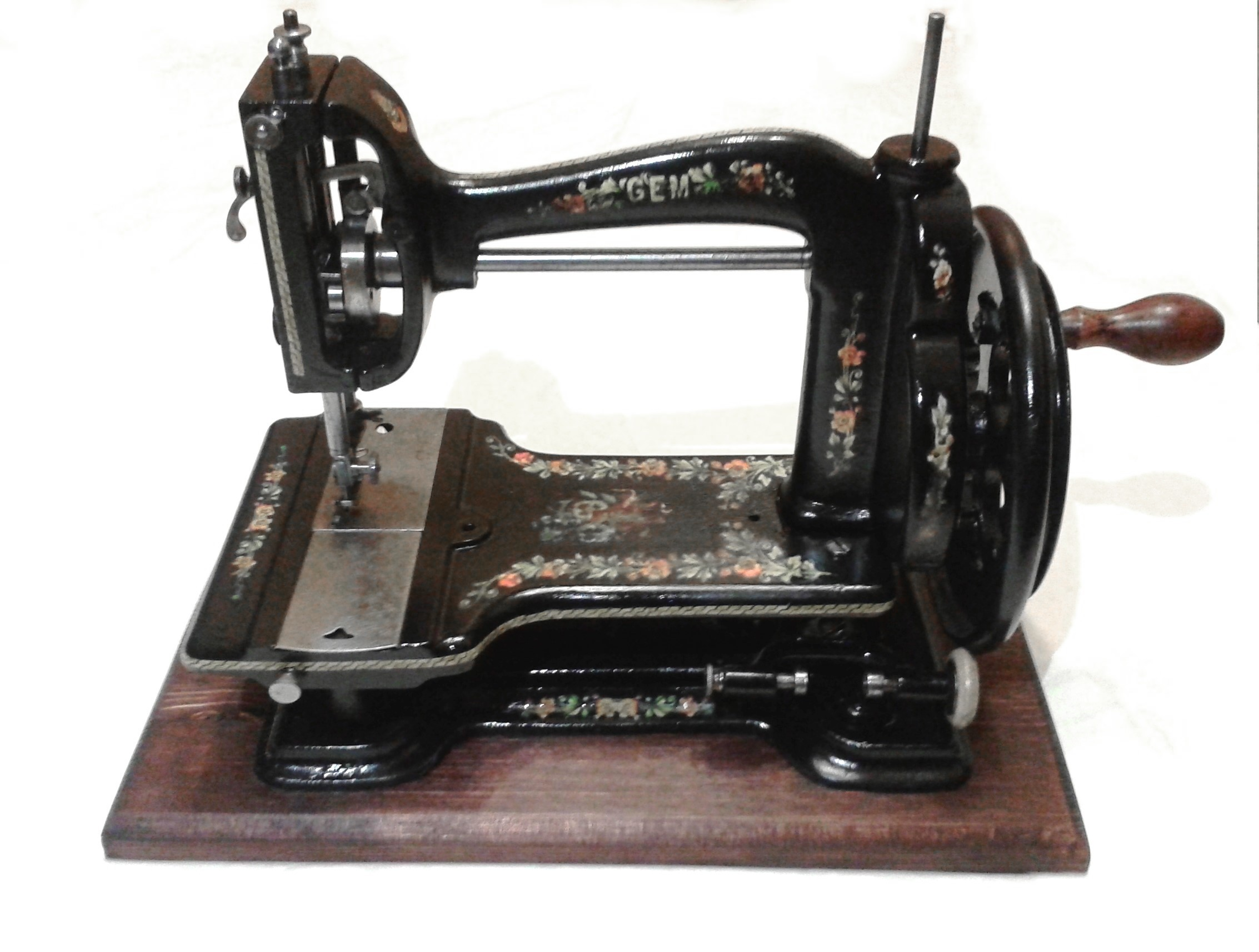 An ornate, cast iron late 19th century sewing machine.